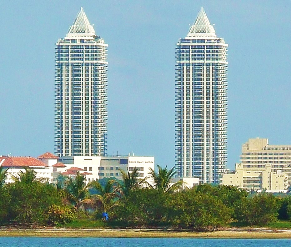 Digital photo taken by Marc Averette. The Blue and Green Diamond condominiums in Miami Beach, Florida, United States.